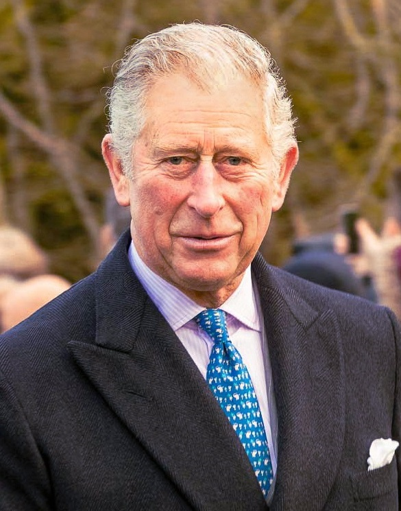 Prince Charles attending church with his family at Sandringham on Christmas Day 2017